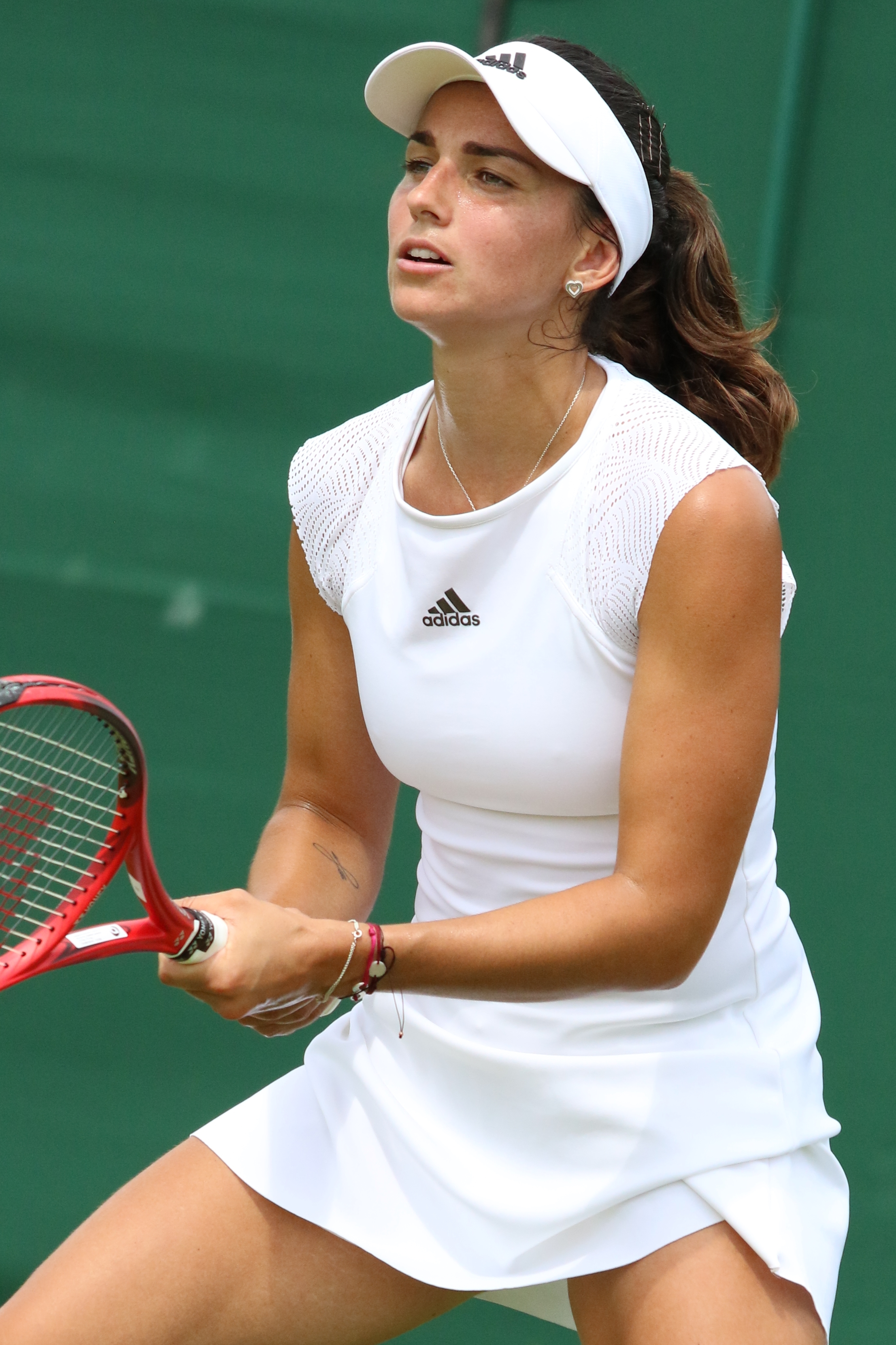 2019 Wimbledon Qualifying Tournament.